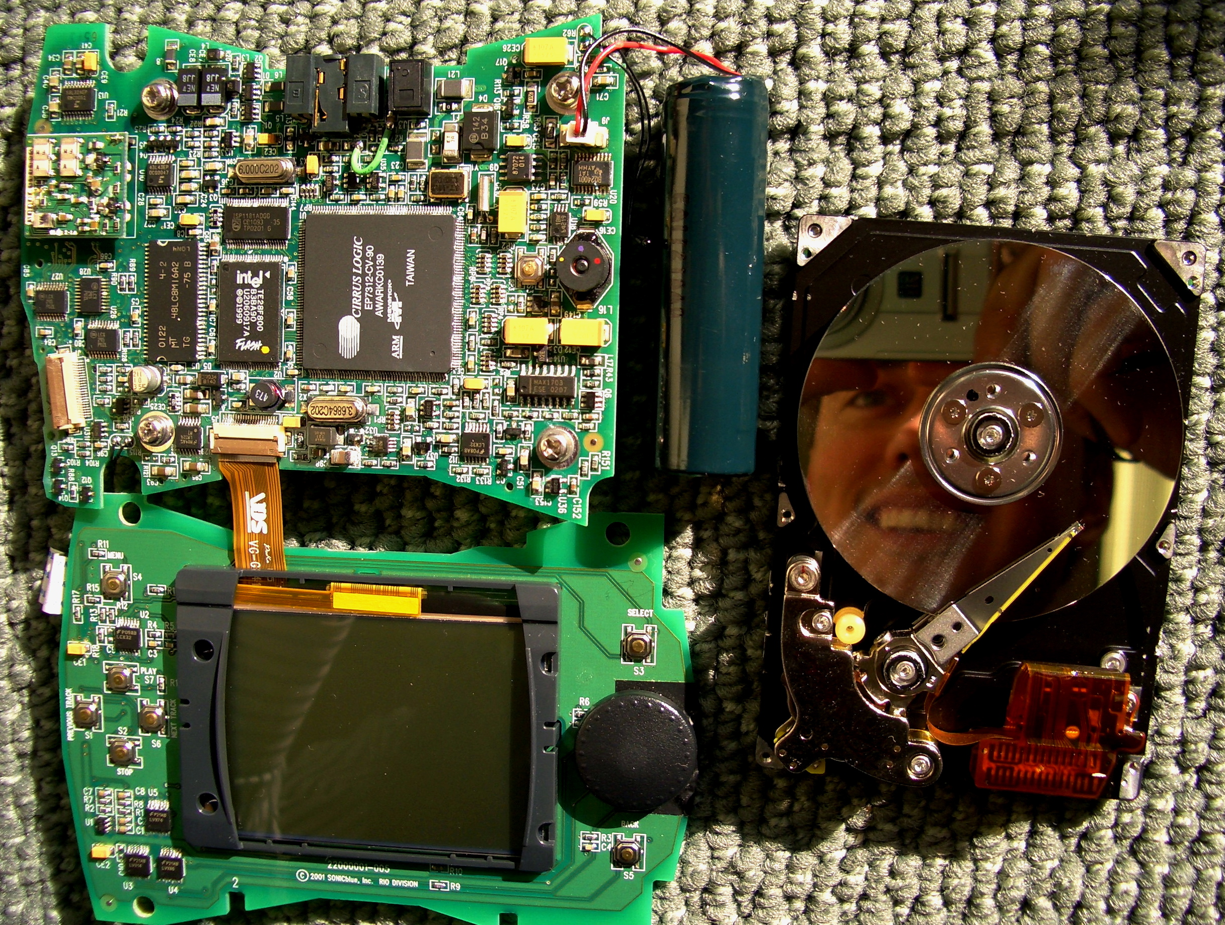 The Rio Riot 20GB MP3 player unfolded